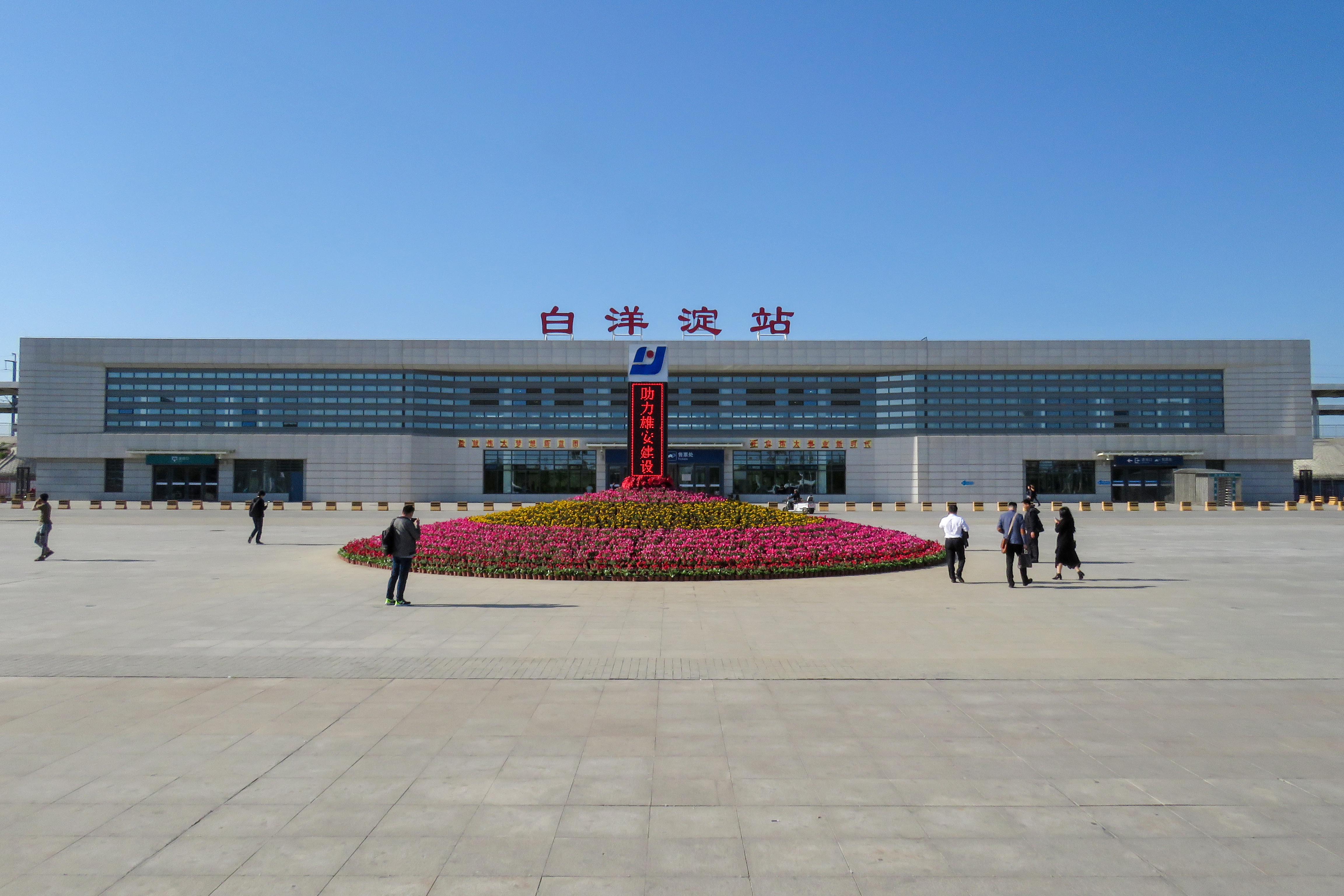 It's the nearest railway station to the temporary administrative council of Xiong'an New Area - also in Rongcheng County.